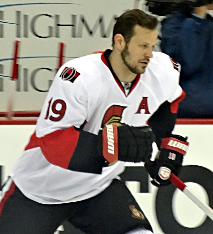 Ottawa Senators forward Jason Spezza during game five of their second round series against the Pittsburgh Penguins, May 24, 2013 at Consol Energy Center in Pittsburgh, PA.